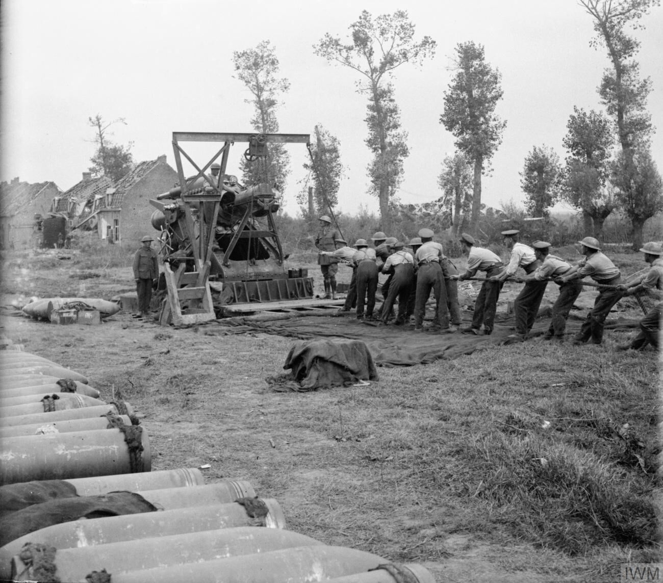 THE THIRD BATTLE OF YPRES Battle of Polygon Wood : Gunners of the Royal Marine Artillery hoisting a shell up to the breech of the 15 inch Howitzer 'Grannie'. Comment : The photo illustrates the degree of manual labour involved. The shell weighed 1450 lbs. NOTE : This version has had brightness and contrast increased to highlight detail.